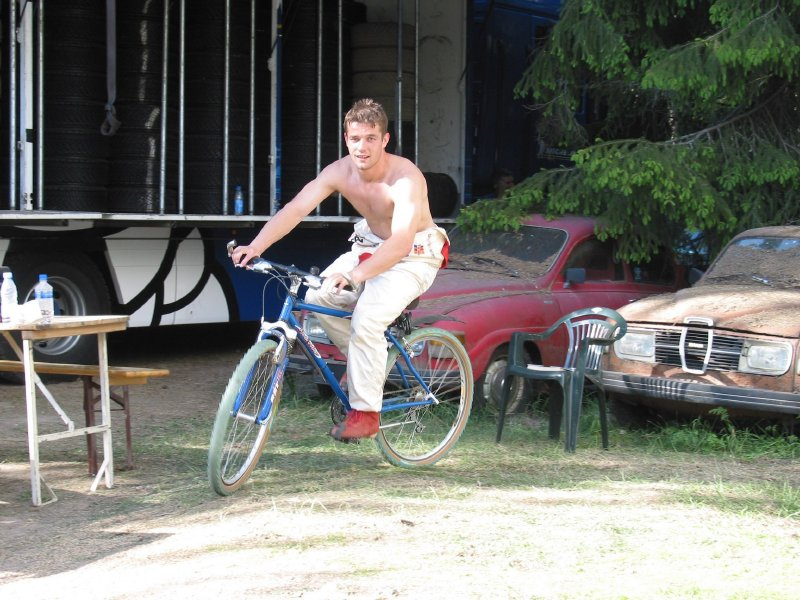 Citroën World Rally Team with their drivers Sébastien Loeb and Thomas Rådström testing in Finland in May, 2002.